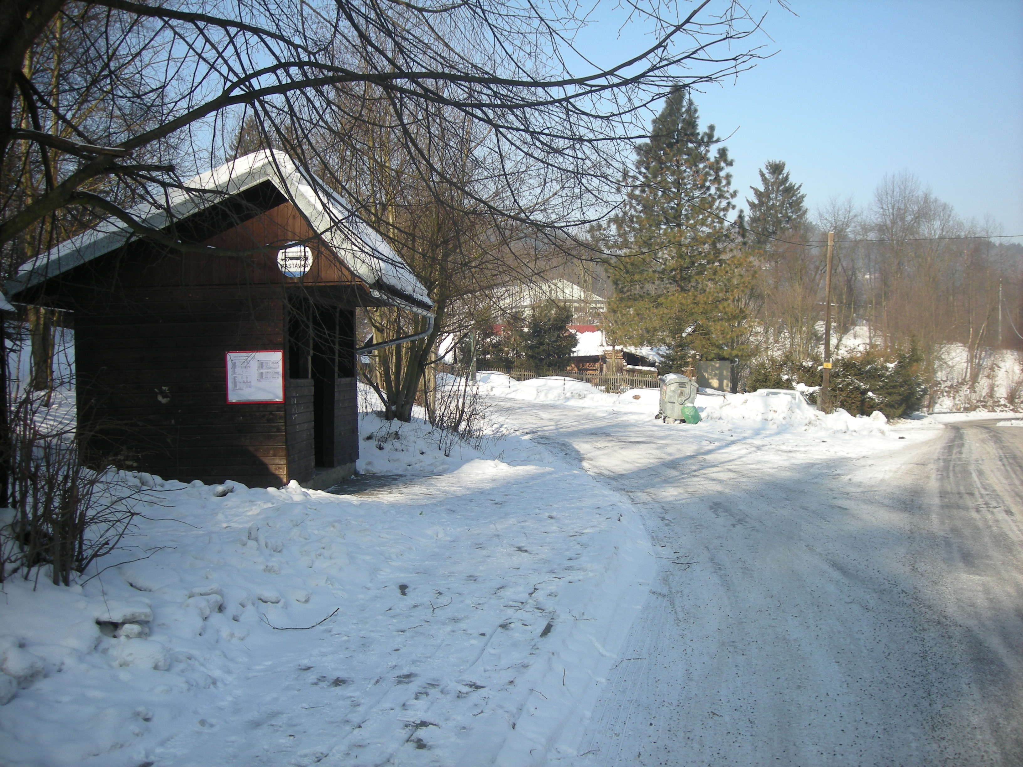 Turntable Valašská Bystřice,Bařiny-točna